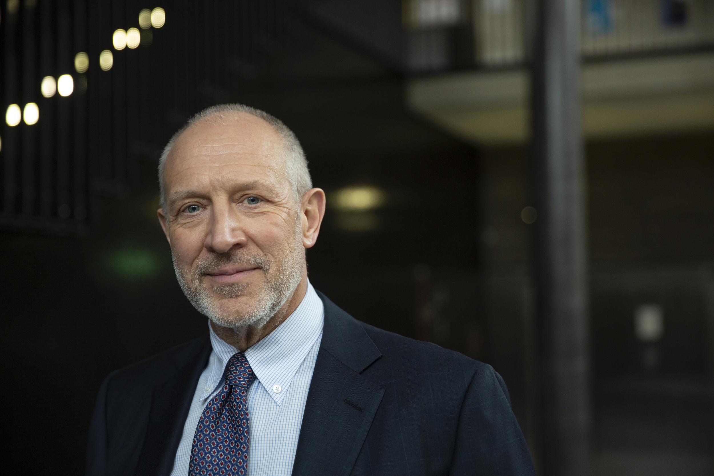 Henry Peter, French-Swiss lawyer and Full Professor at the University of Geneva in 2019.